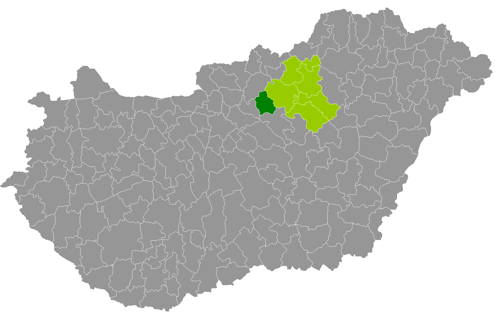 Location of Hatvan District, Heves, Hungary